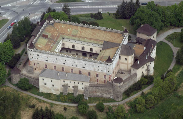 Zvolen Castle, Slovakia, aerial photography